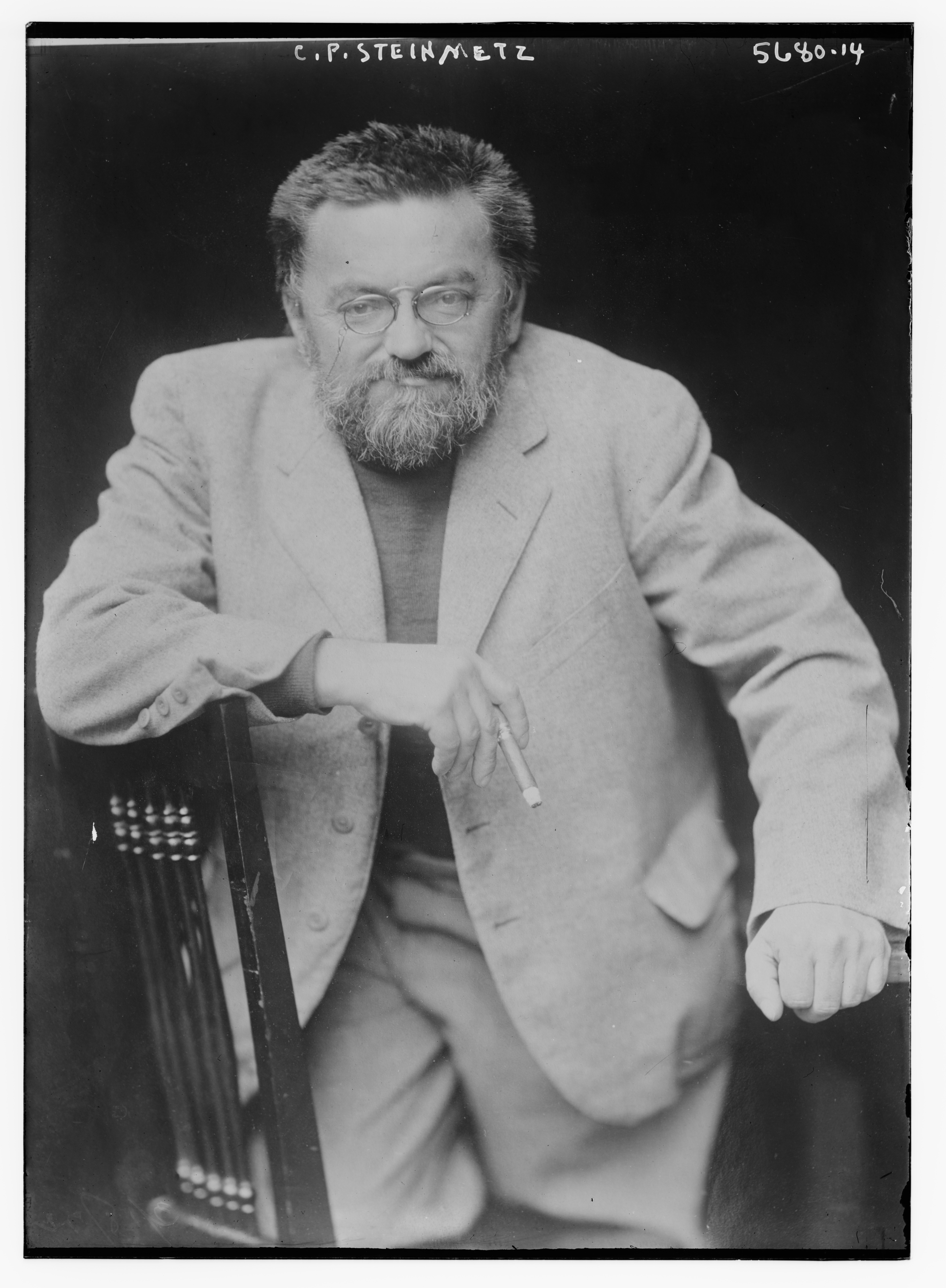 Title: C.P. Steinmetz Abstract/medium: 1 negative : glass ; 5 x 7 in. or smaller.